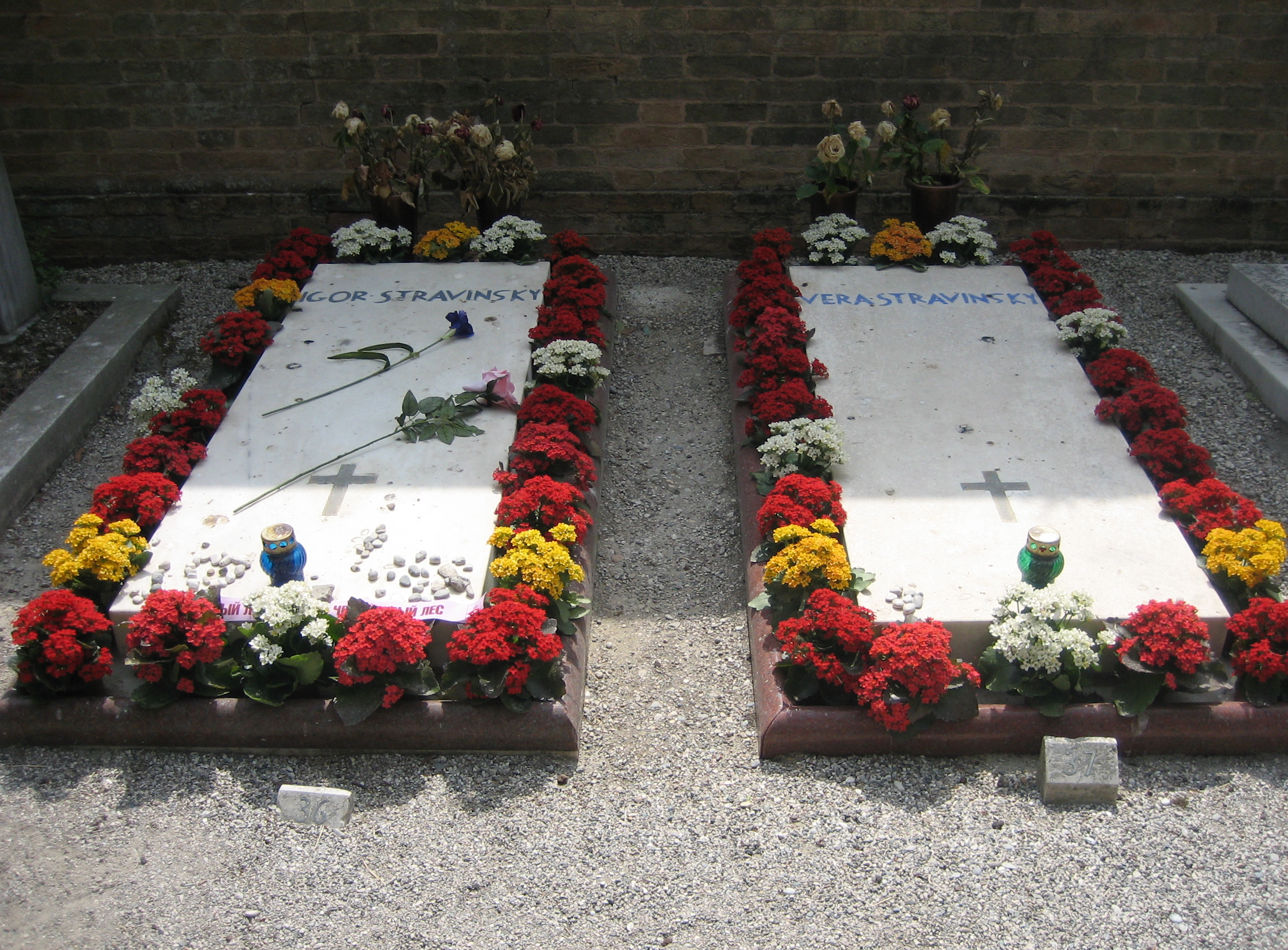 Isola di San Michele- Igor and Vera Stravinsky. Russian composer brought to fame due to the support of Sergei Diaghilev and his Ballet Russes. Most famous composition was "Rite of Spring".